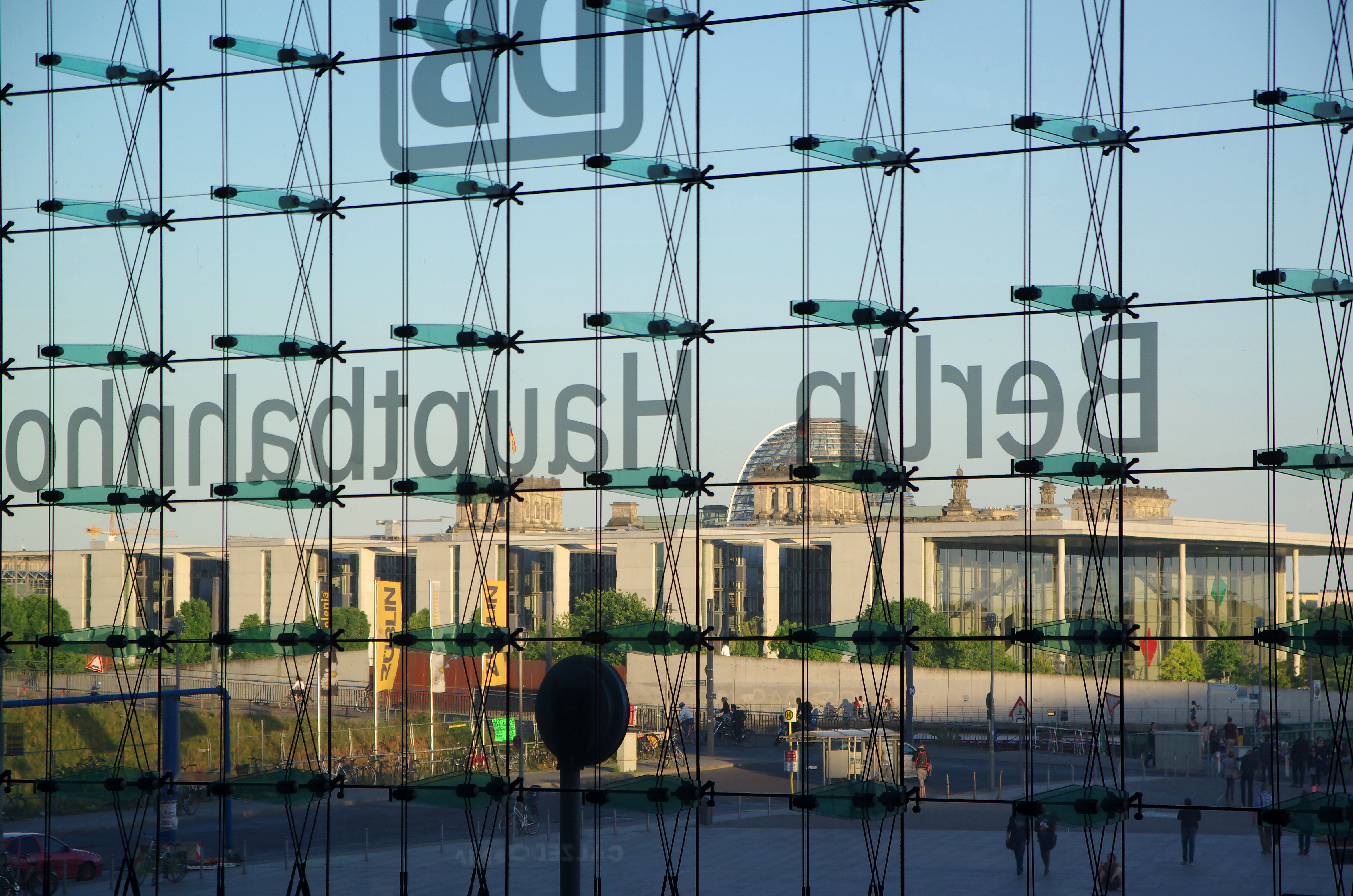 View from Berlin Hauptbahnhof towards Reichstag